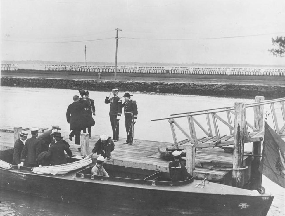 President Theodore Roosevelt (at left, back to camera, tipping his top hat) arrives aboard the barge from the presidential yacht at the Naval War College in Newport, to spend the day as chairman of the ongoing Battleship Conference there. Greeting him on the pier are the President of the Naval War College, Rear Admiral John P. Merrell (far right) and, standing next to Merrell, Roosevelt's naval aide, Commander William S. Sims.